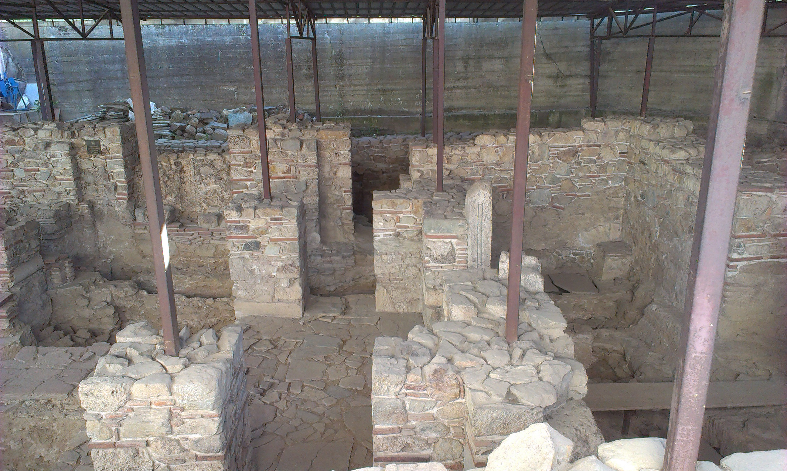 Sts. 15 Martyrs of Tiveriopolis